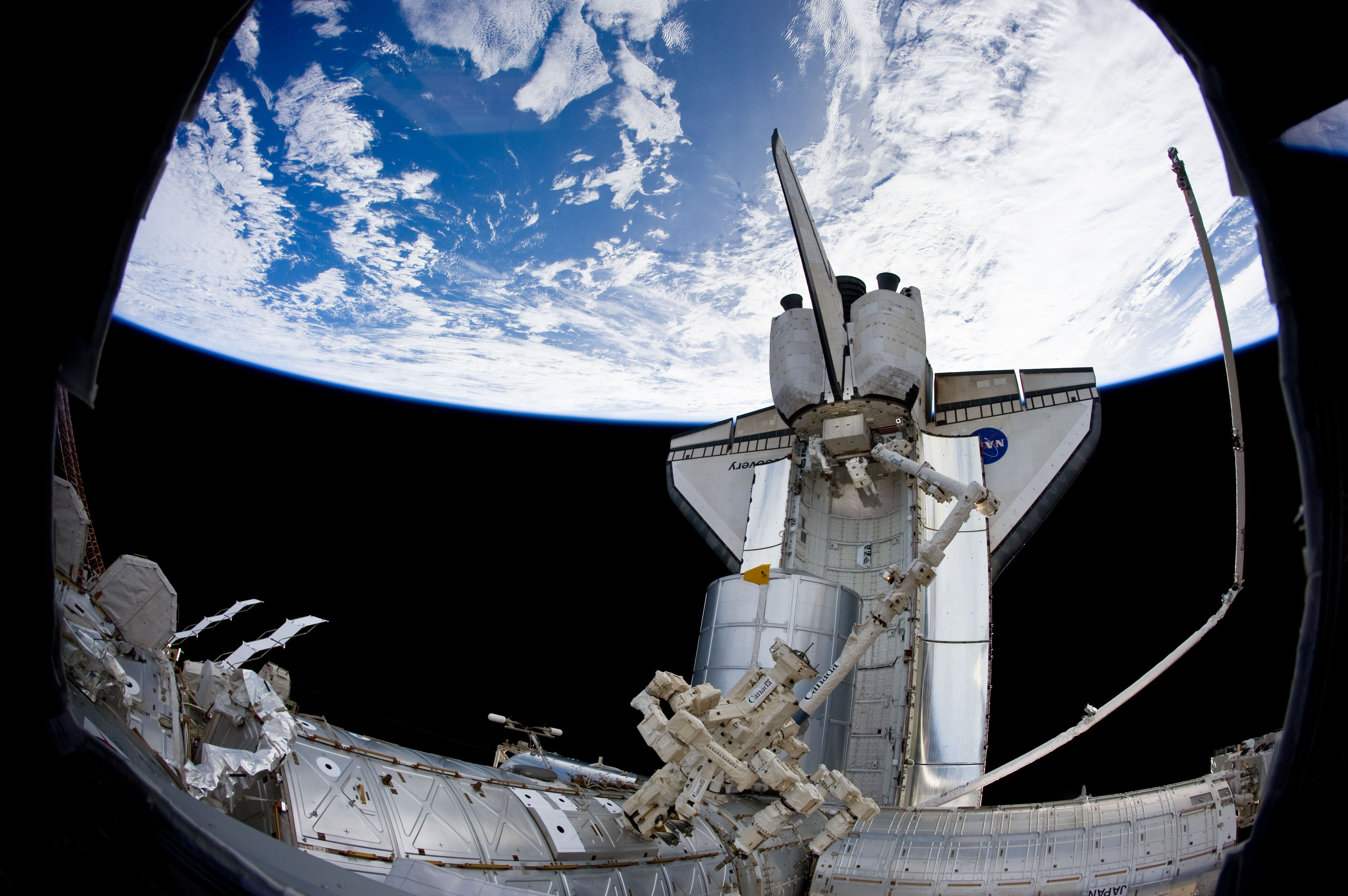 Dwarfed by space shuttle Discovery, NASA astronauts Rick Mastracchio (right) and Clayton Anderson, both STS-131 mission specialists, are seen working in Discovery's aft payload bay during the mission's third and final session of extravehicular activity (EVA) as construction and maintenance continue on the International Space Station. During the six-hour, 24-minute space-walk, Mastracchio and Anderson hooked up fluid lines of the new 1,700-pound tank, retrieved some micro-meteoroid shields from the Quest airlock's exterior, relocated a portable foot restraint and prepared cables on the Zenith 1 truss for a spare Space to Ground Ku-Band antenna, two chores required before space shuttle Atlantis' STS-132/ULF-4 mission in May. Earth's horizon and the blackness of space provide the backdrop for the scene.